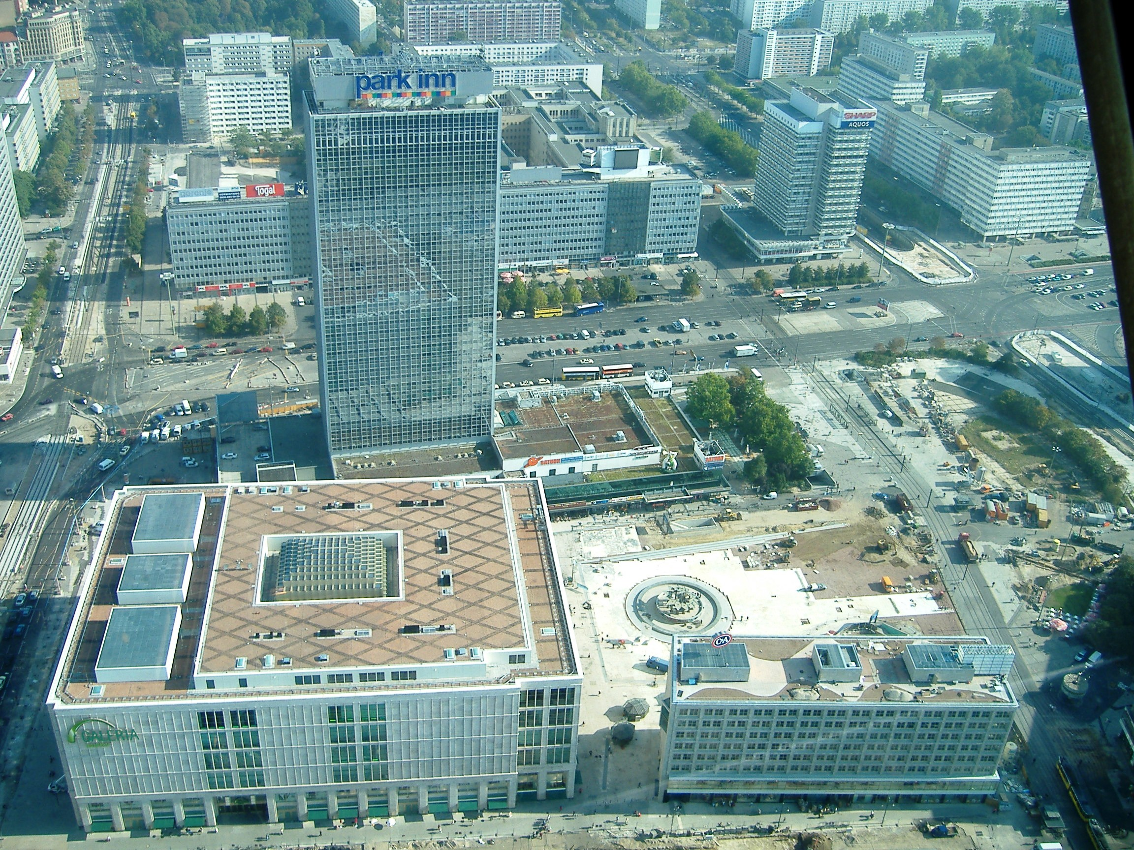 Berlin - view from Fernsehturm to Alexanderplatz